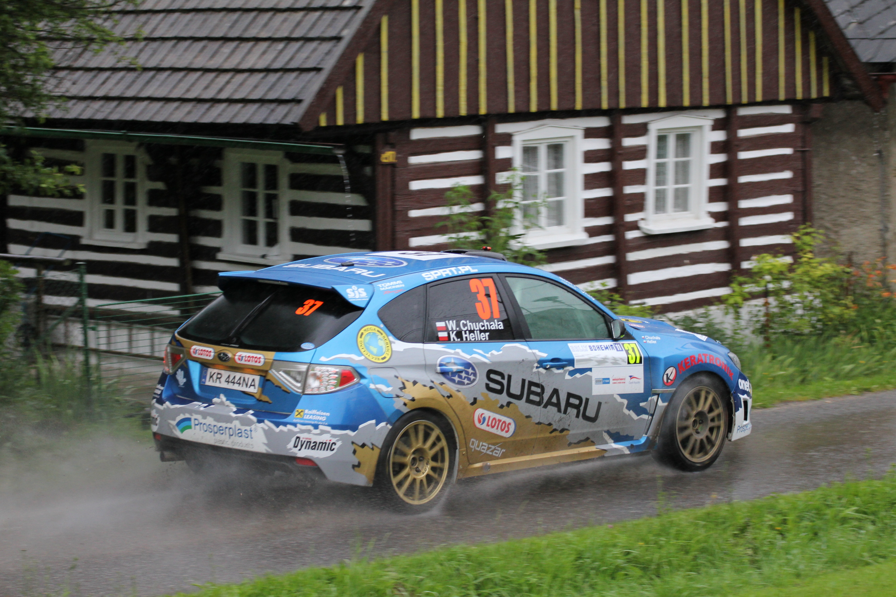 Rally Bohemia 2011 - Chuchala